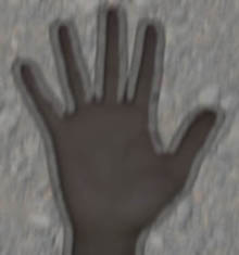 Picture of hand viewed through X-Ray Specs (approximation). I made this image myself.Herostratus 22:20, 22 November 2005 (UTC)